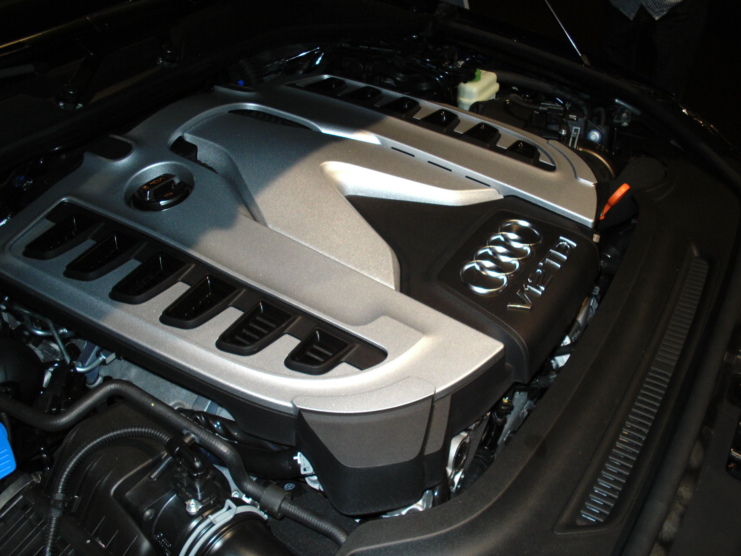 Audi Q7 6.0 liter V12 TDI engine side-view on the AutoRAI 2009